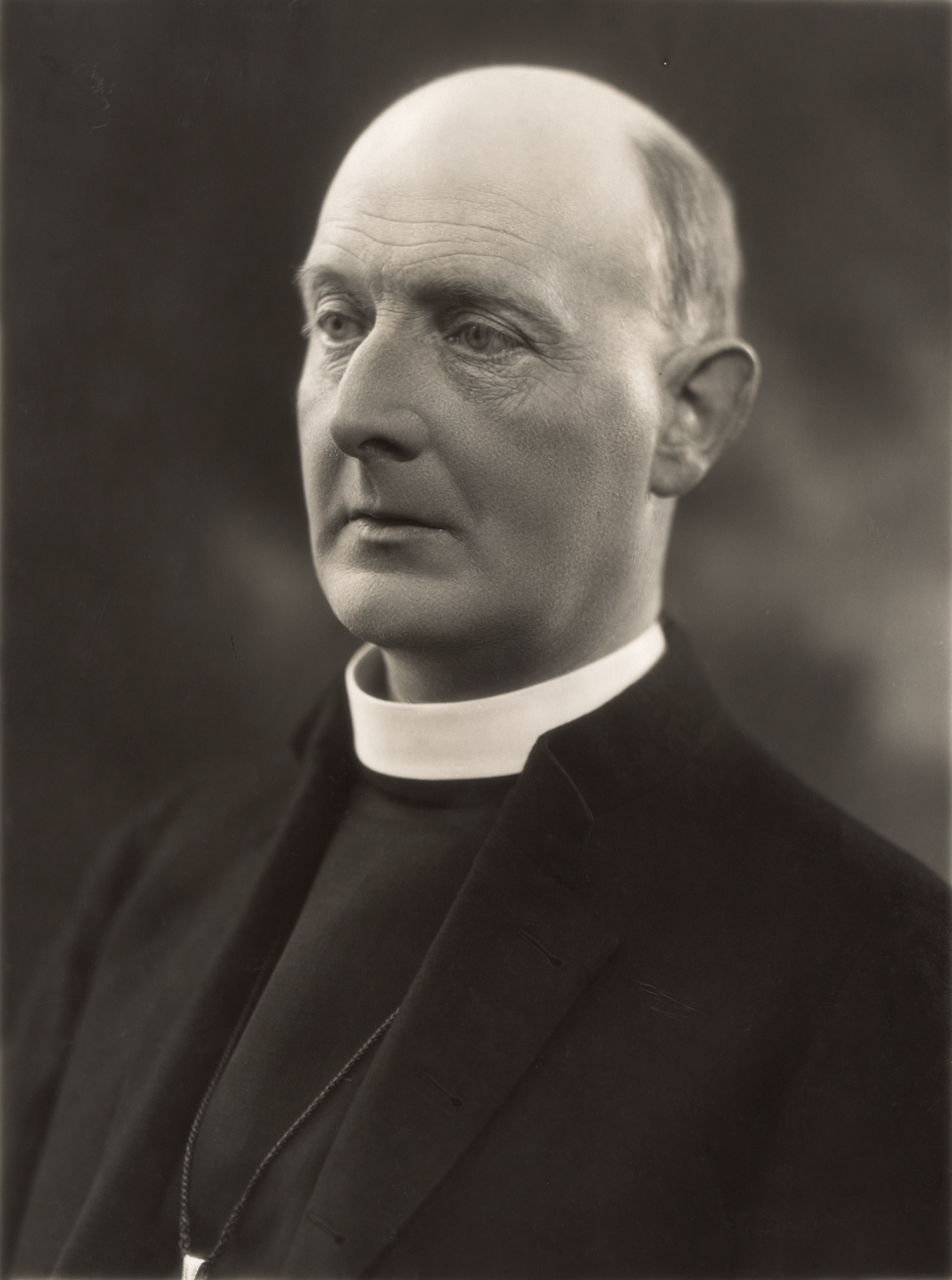 Depicted person: Cyril Garbett – Archbishop of York